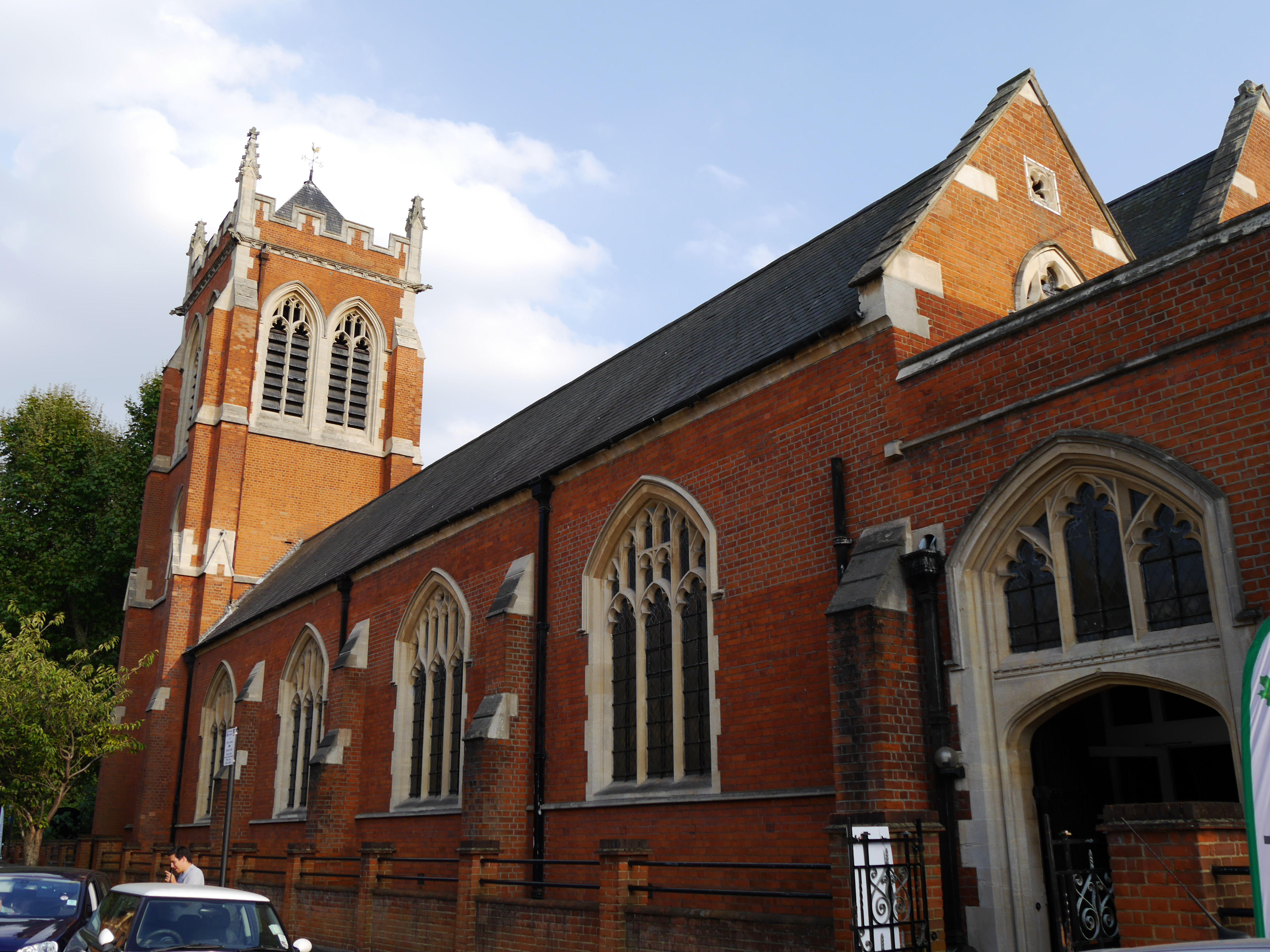 St. Dionis, Parsons Green, London SW6